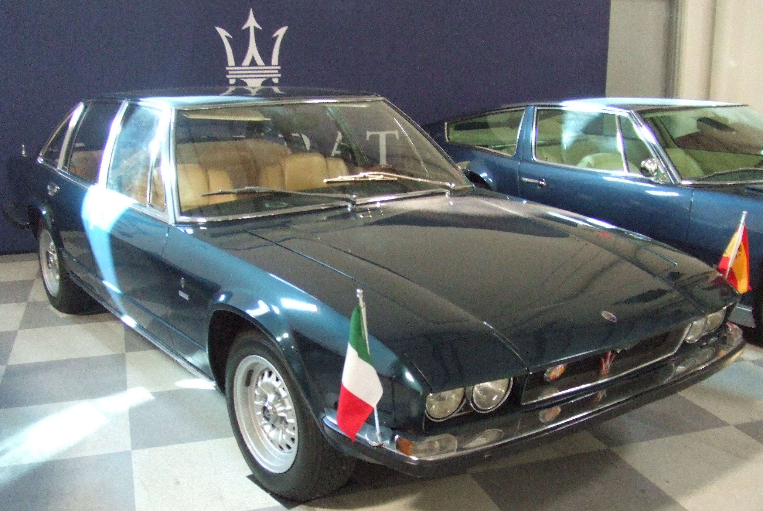 1971 Maserati Quattroporte AM121 at the Riverside International Automotive Museum (s/n 002). This Frua-built prototype was originally owned by King Juan Carlos of Spain.